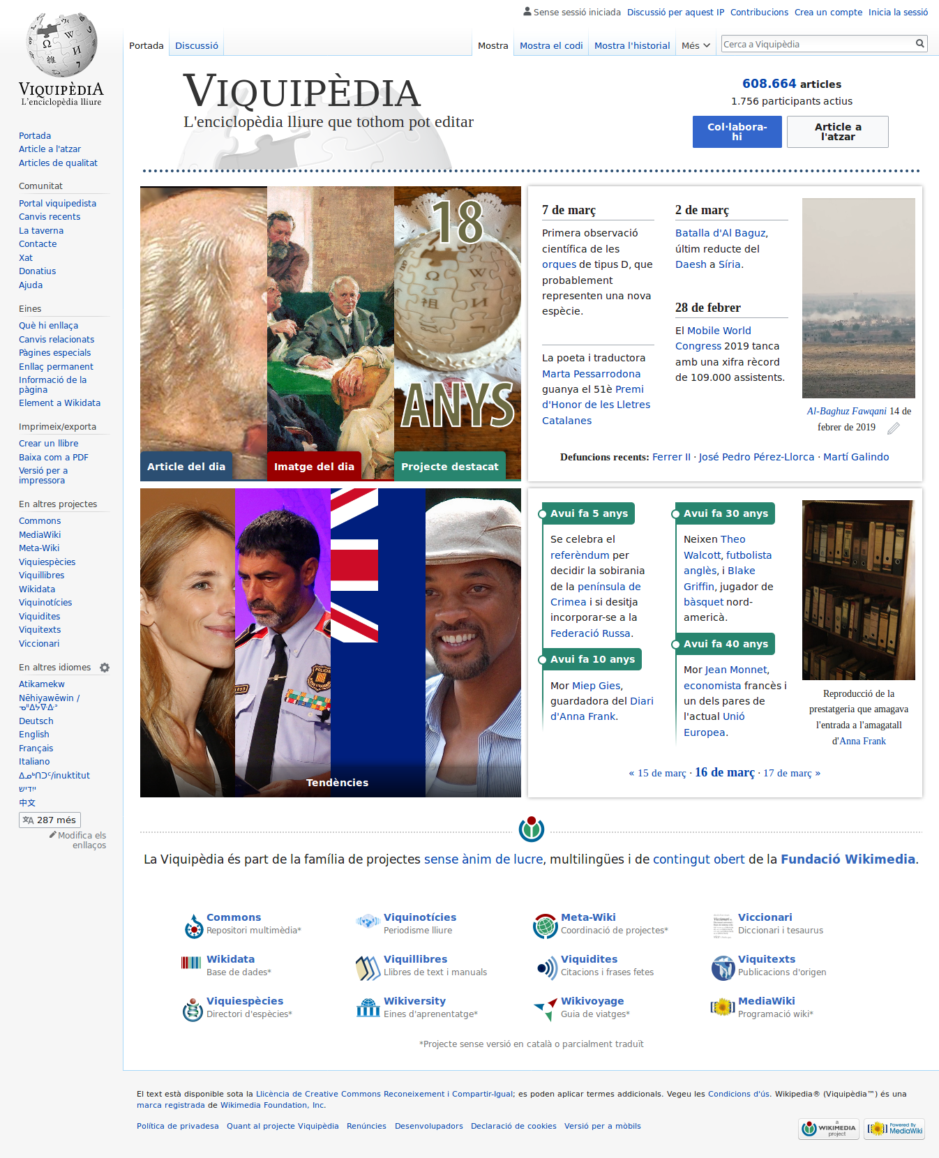 Screenshot of the Catalan Wikipedia's main page on 2019-03-16